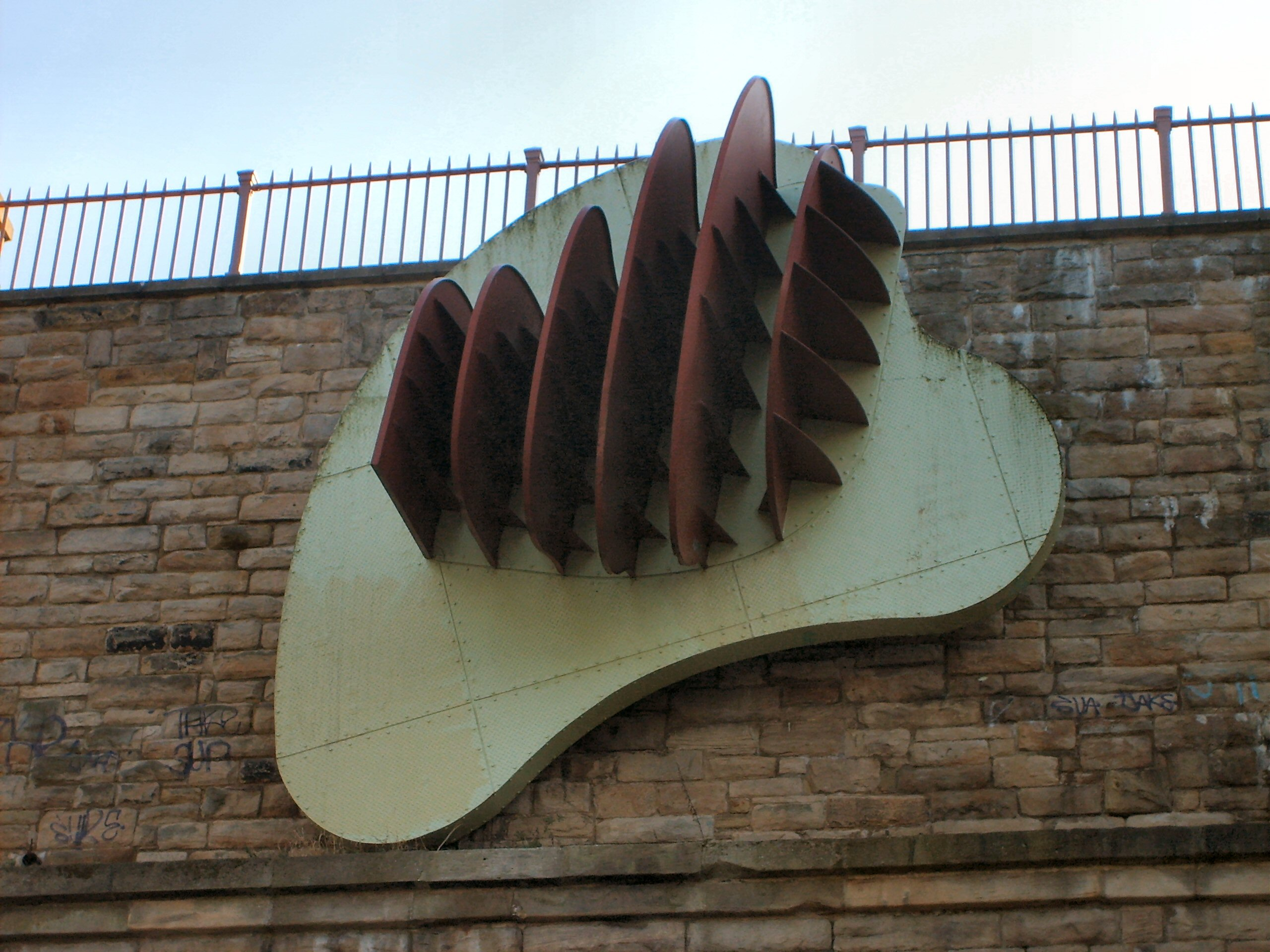 "Once Upon A Time" by Richard Deacon